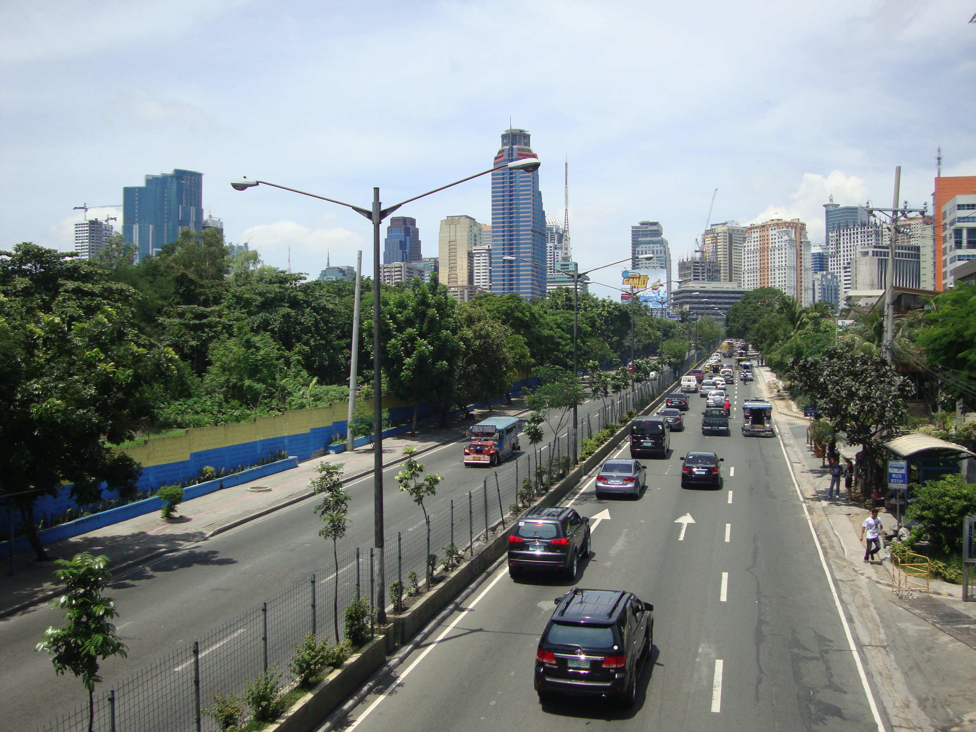 Ortigas Avenue in Pasig City